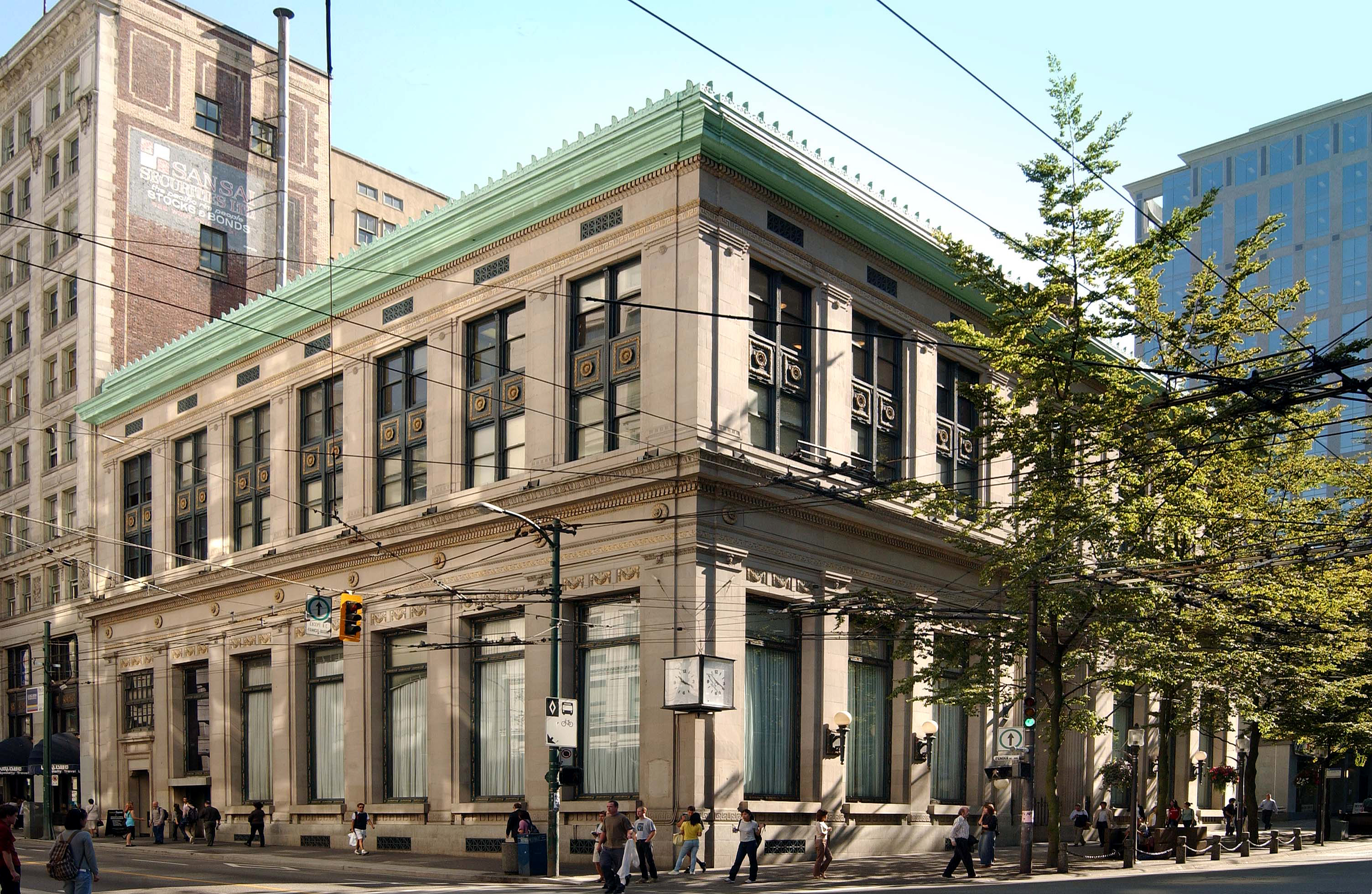 Property of Simon Fraser University